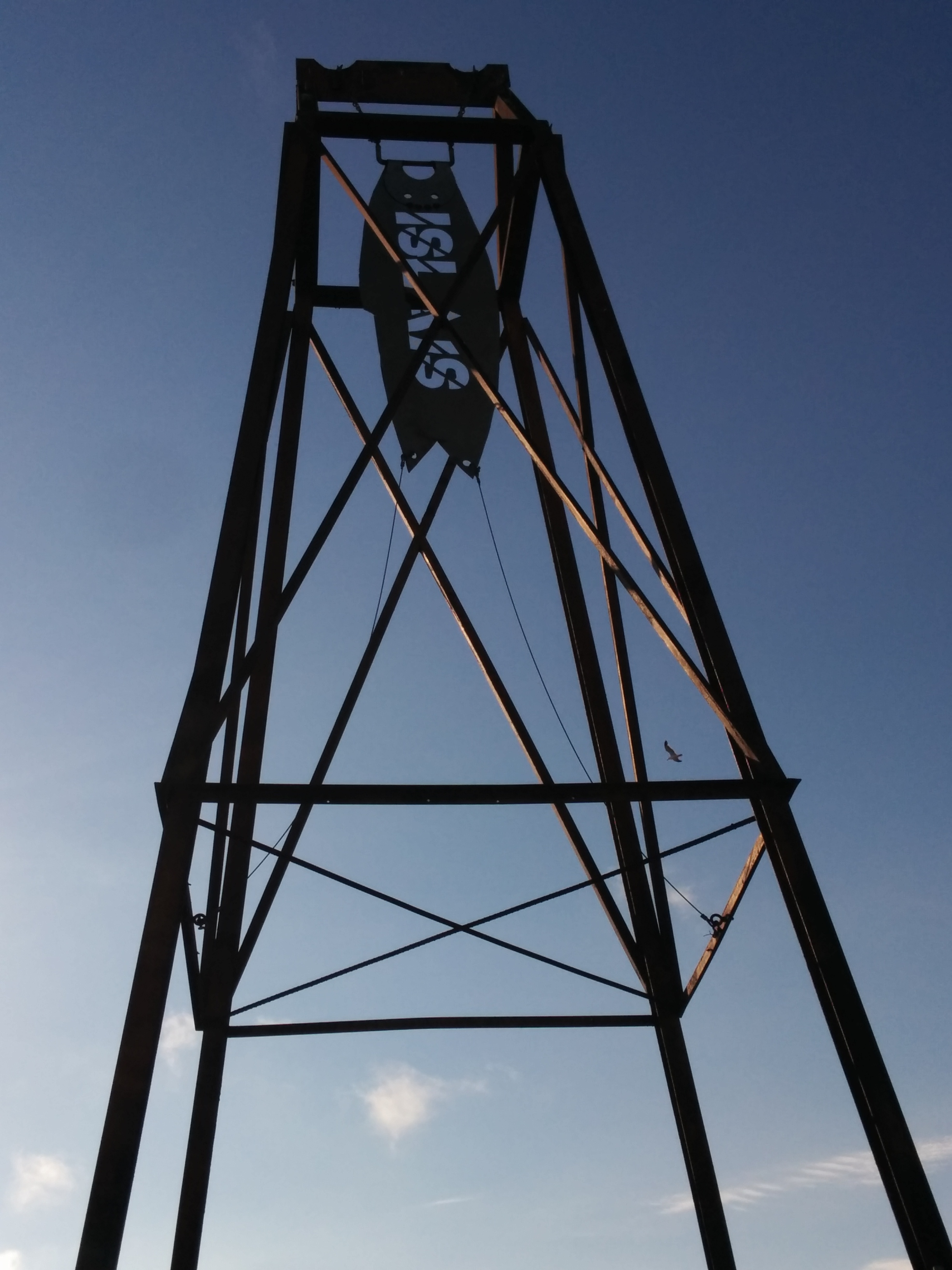 A photo of a large iron structure, a remnant of a crane, with an iron shape hanging in the center, with the word ISLAIS cut into it.